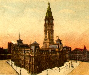 Philadelphia Town Hall, postcard view, c. 1900